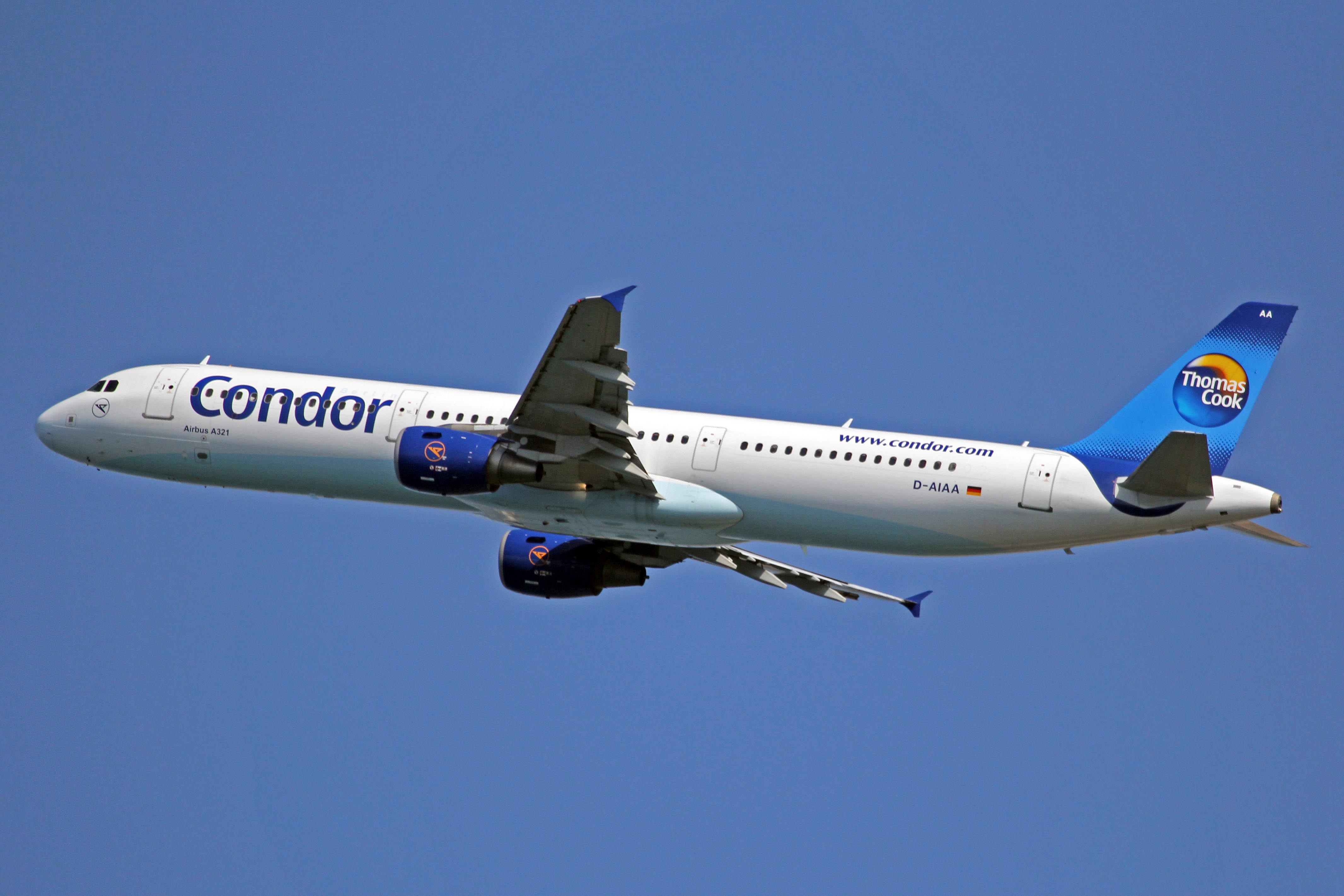 Condor's first A321